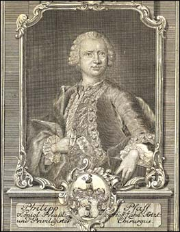 Philipp Pfaff, Originator of dental medicine in Germany